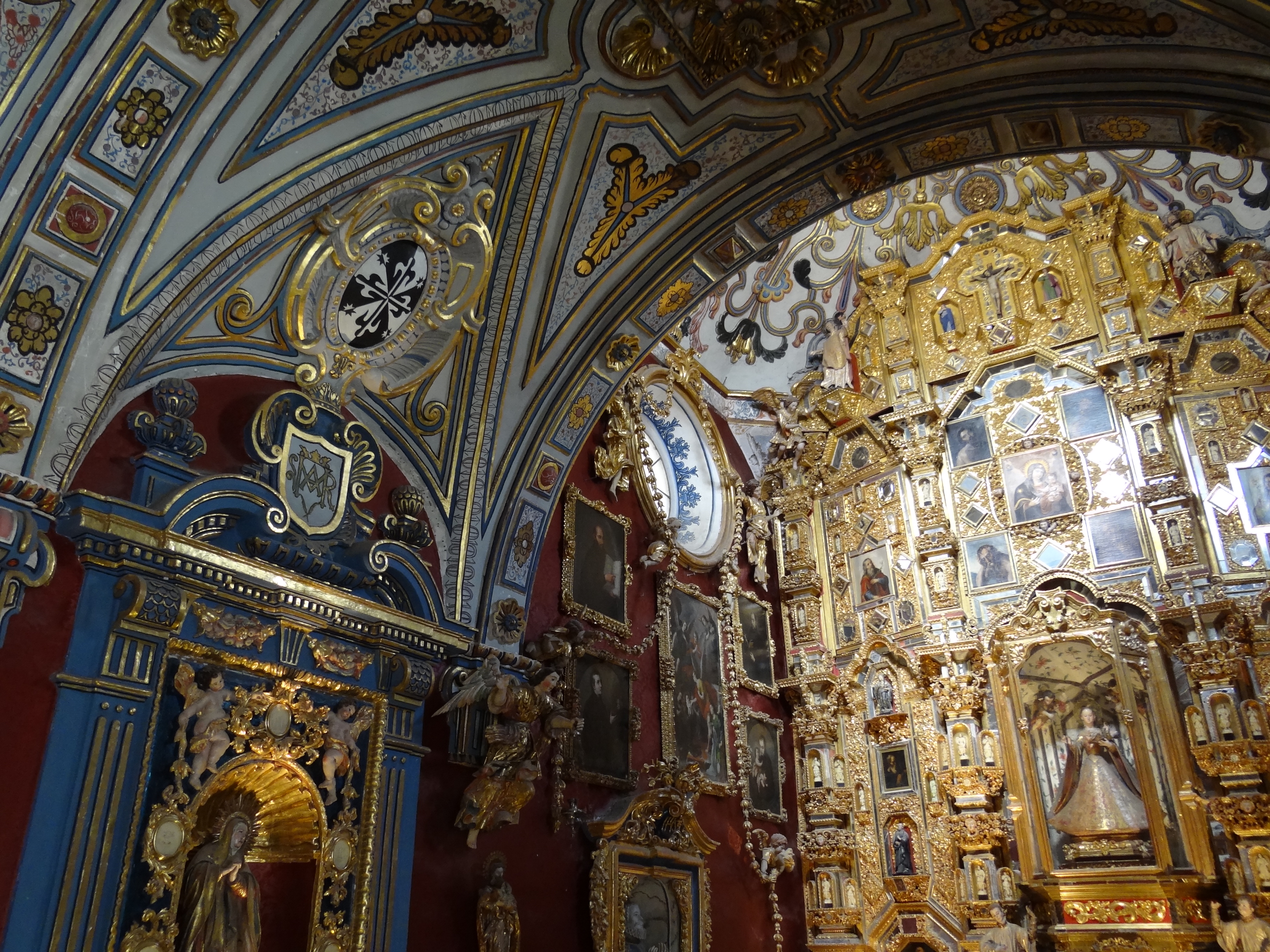 Capilla Domestica - Museo Nacional del Virreinato - Tepotzotlan - Mexico - 01